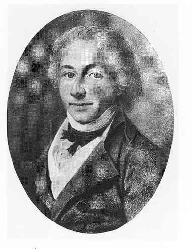 Frantz Christopher Henrik Hohlenberg (1764-1804), Danish shipbuilder and naval officer